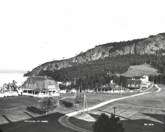 Kineo Cottage Row